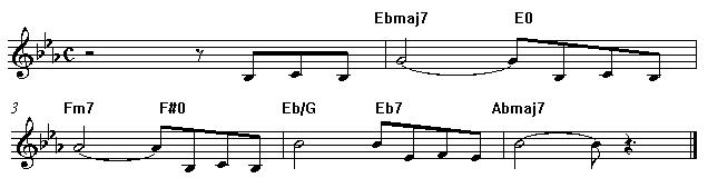 first four bars of Makinn' Whooppe.